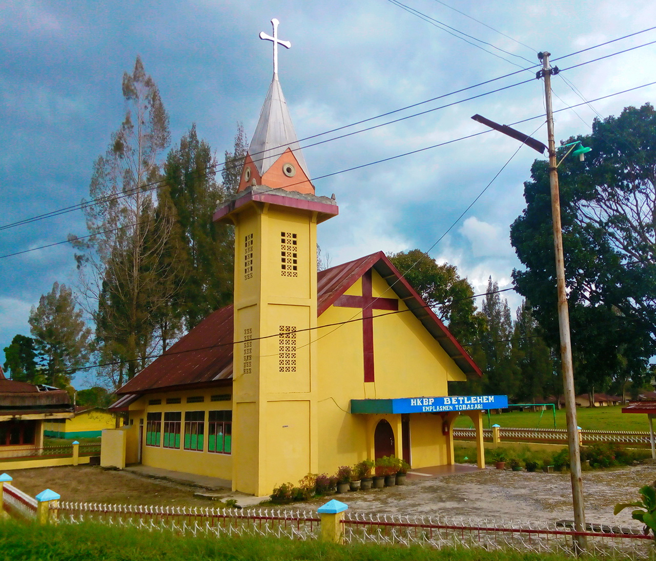 HKBP Church in Sidamanik, Simalungun.